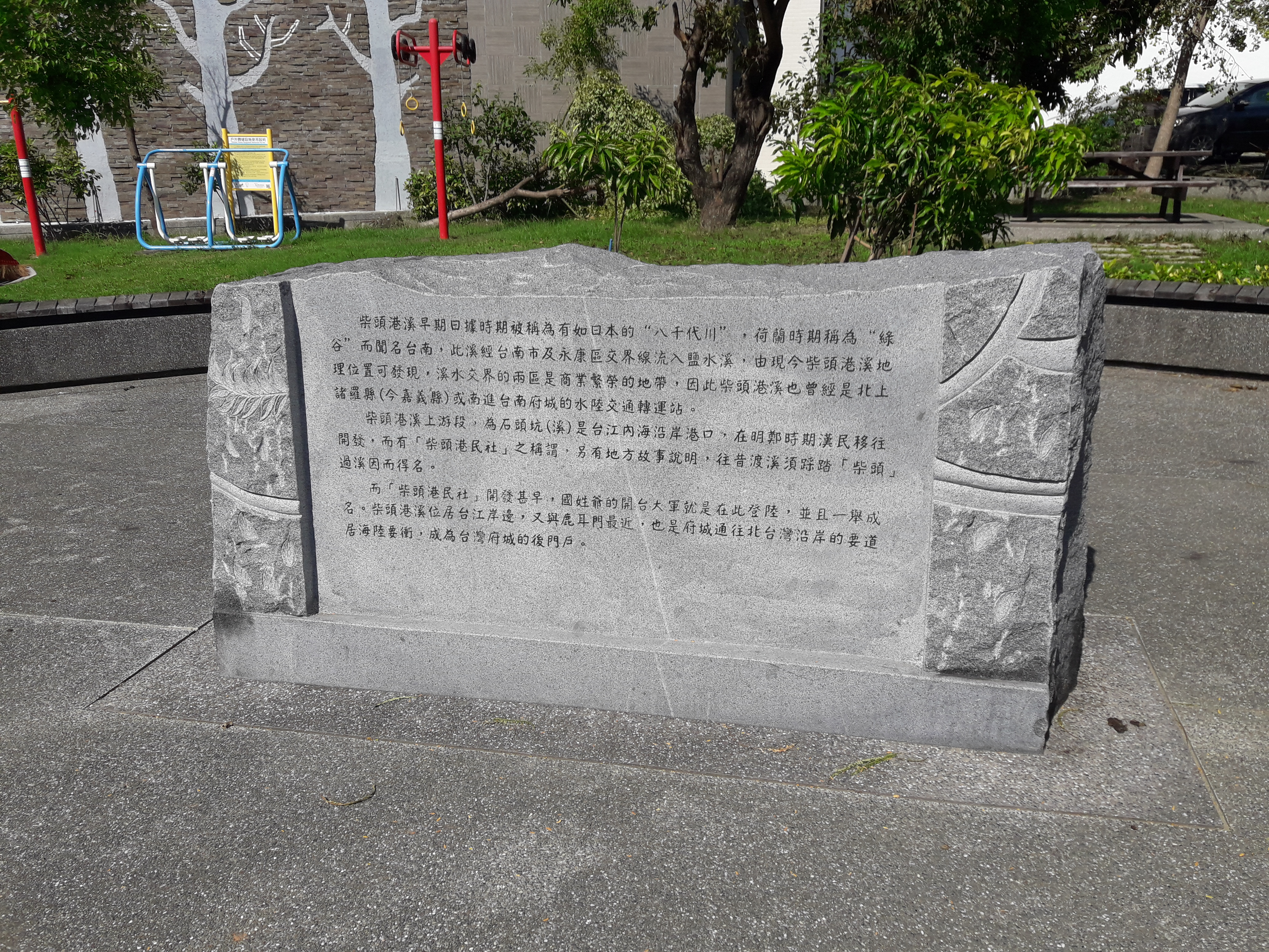 A stele next to Chaitougang River, Tainan, Taiwan.